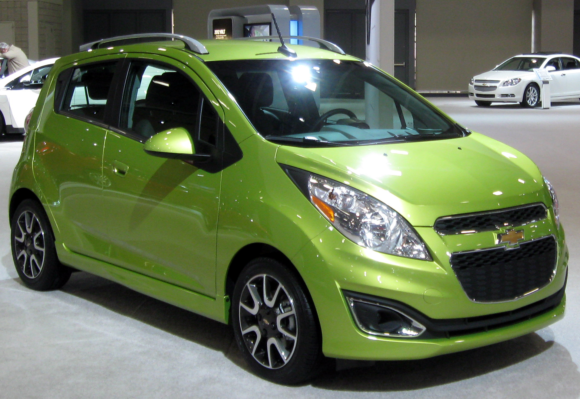 2013 Chevrolet Spark photographed in Washington, D.C., USA.